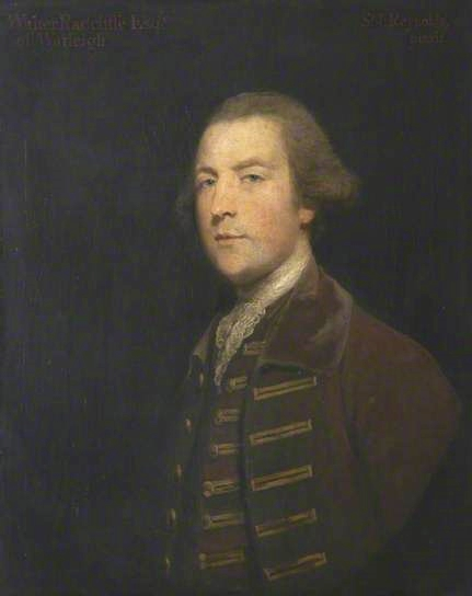 Portrait of Walter II Radcliffe (1733-1803) of Warleigh House, Tamerton Foliot, Devon, painted circa 1757/8 by Sir Joshua Reynolds (1723–1792). Oil on canvas, 76 x 63.5 cm . Collection of National Trust, Saltram House, Devon